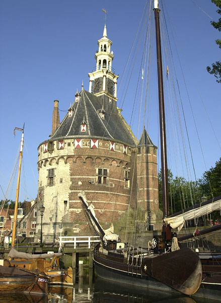 The Hoofdtoren (The Head Tower), viewed from the waterfront